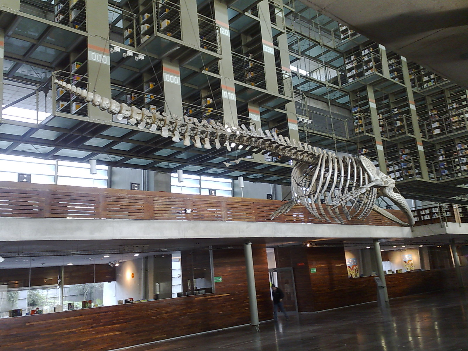 Photograph of the painted real whale skeleton _Ballena_, by Gabriel Orozco. This installation is located in the José Vasconcelos Library, in Mexico City.